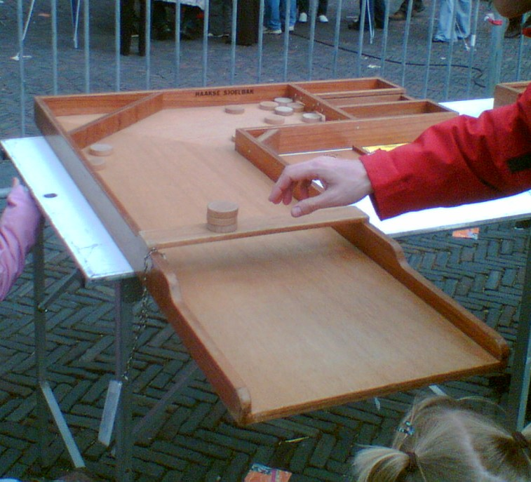 Normally, a sjoelbak is straight, but this one is under an angle for xtra phun!